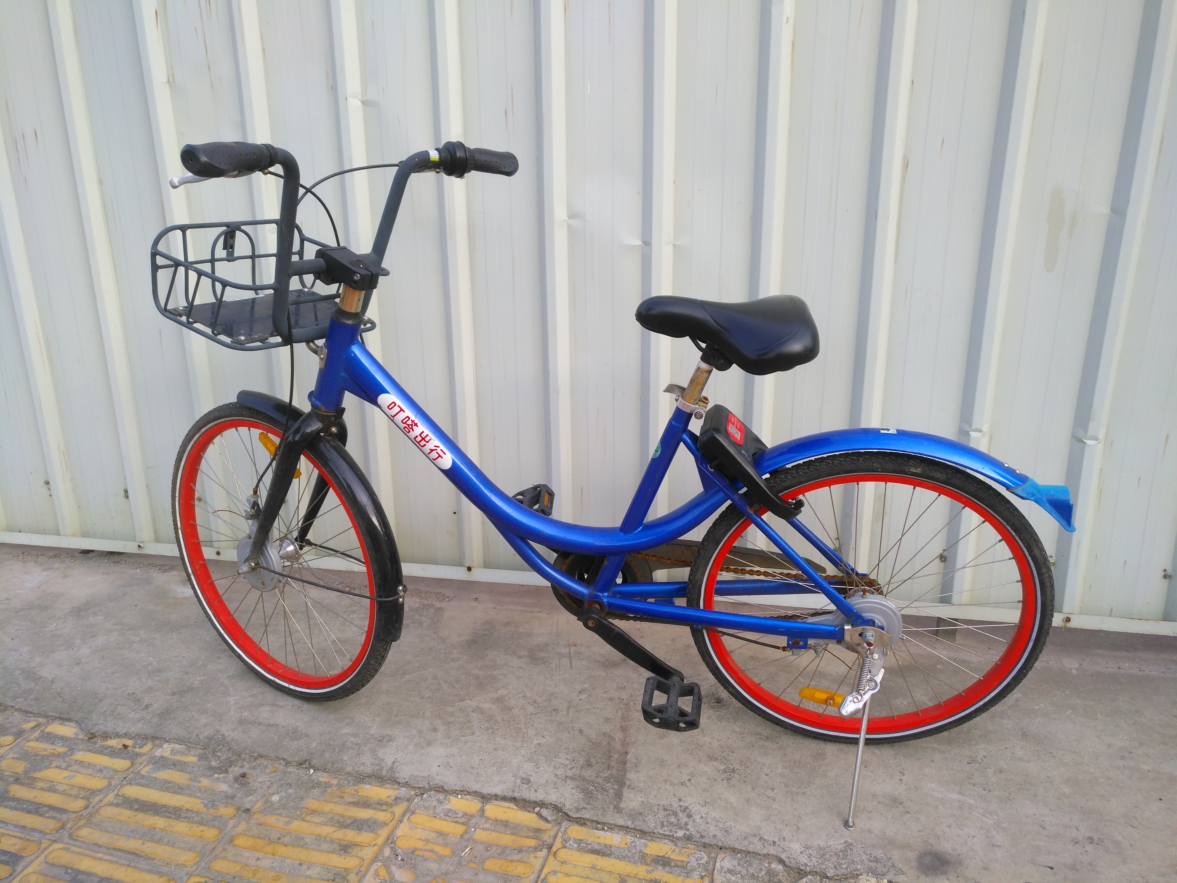 A Dingda Bike in Chaozhou, Guangdong, China.